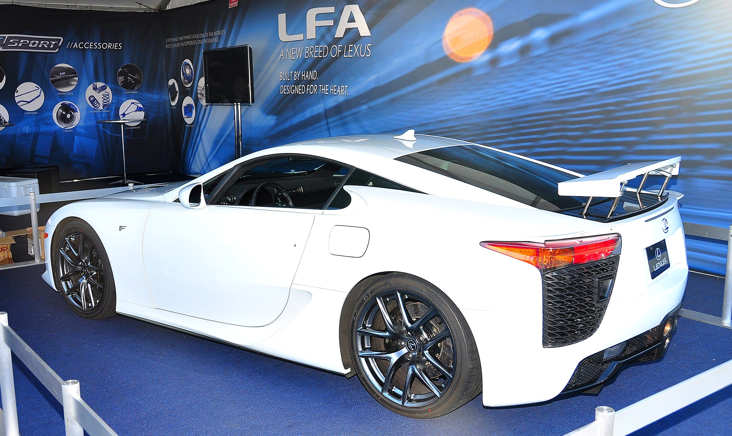 Toyotafest 2010